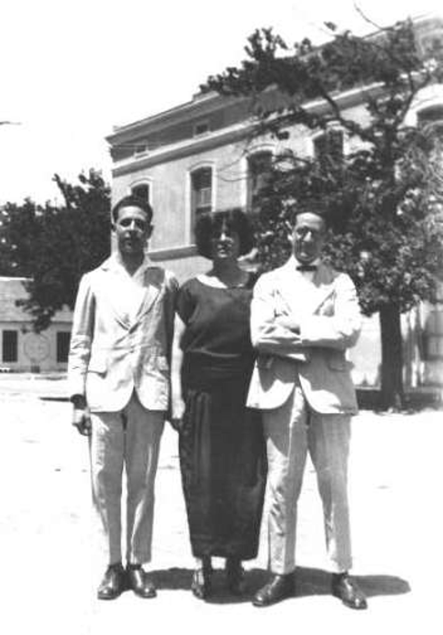 Josef Marais (November 17th, 1905–April 27th,1978) was a folk-singer from South Africa.